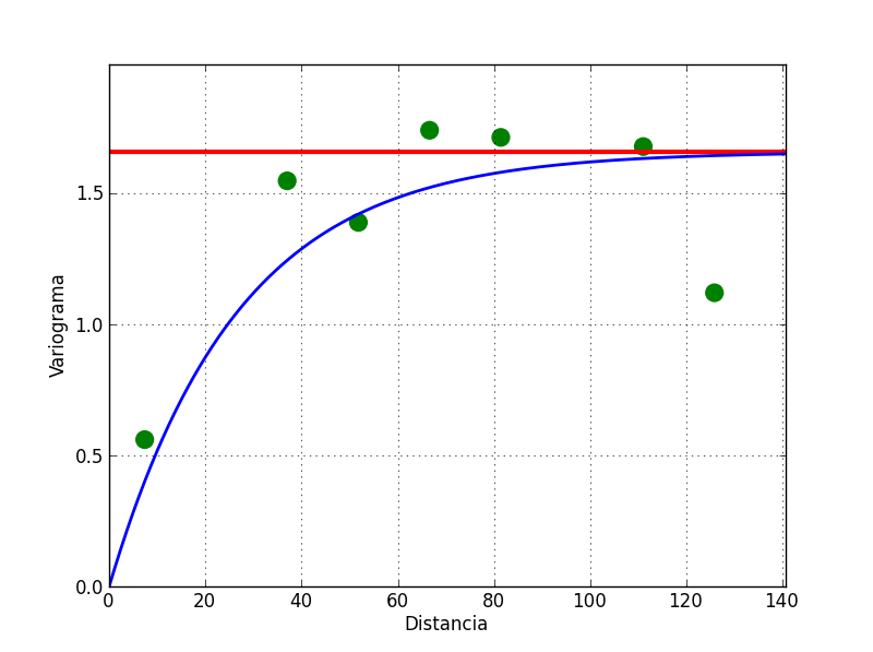 Variogram made for a study case in the direction of angle 0.